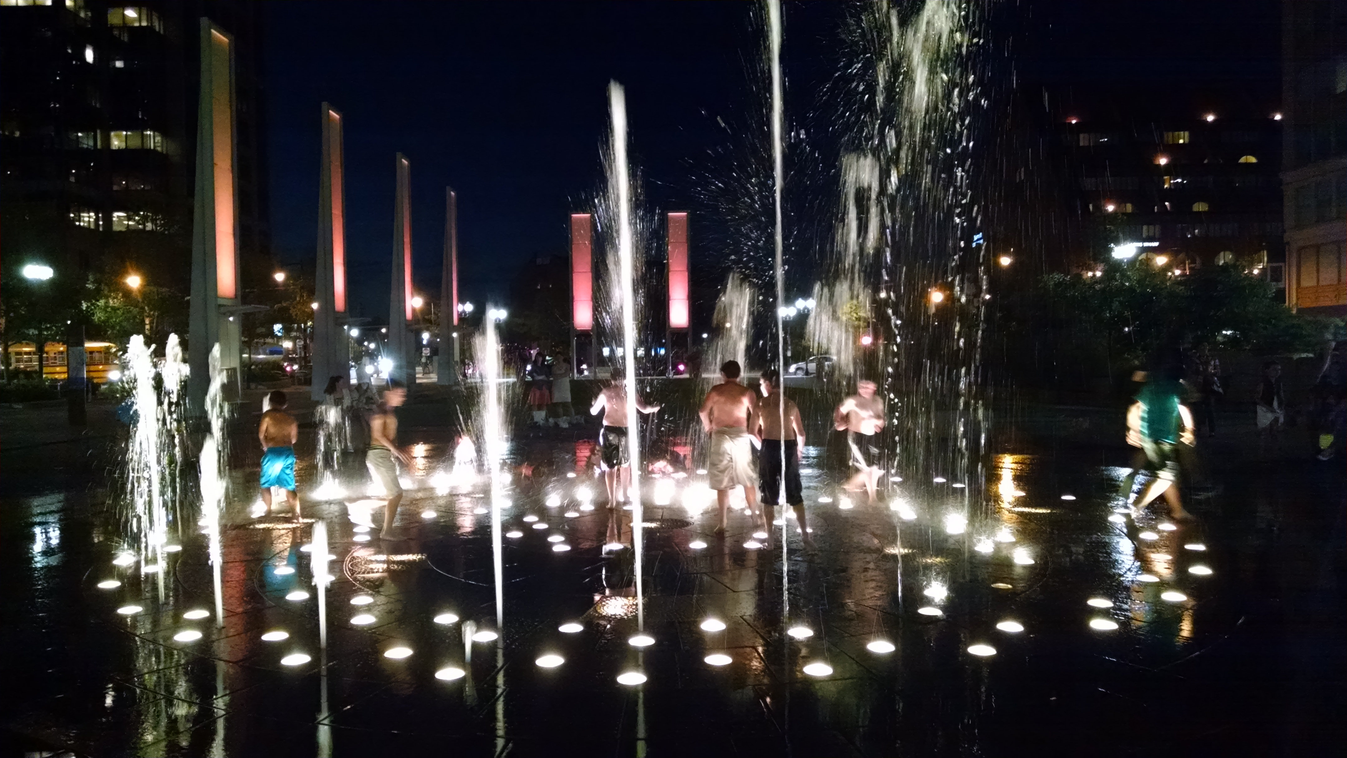 People in the fountain in the Wharf District Park on the Rose Kennedy Greenway in Boston